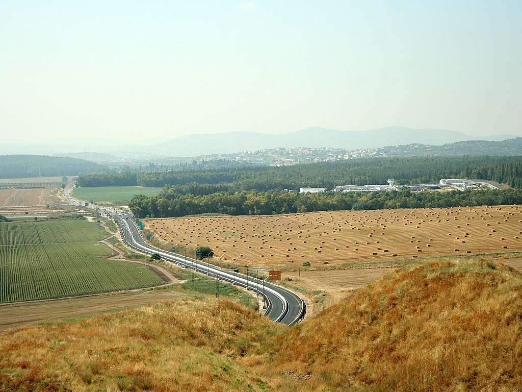 View from Meggido Hill to Meggido Junction